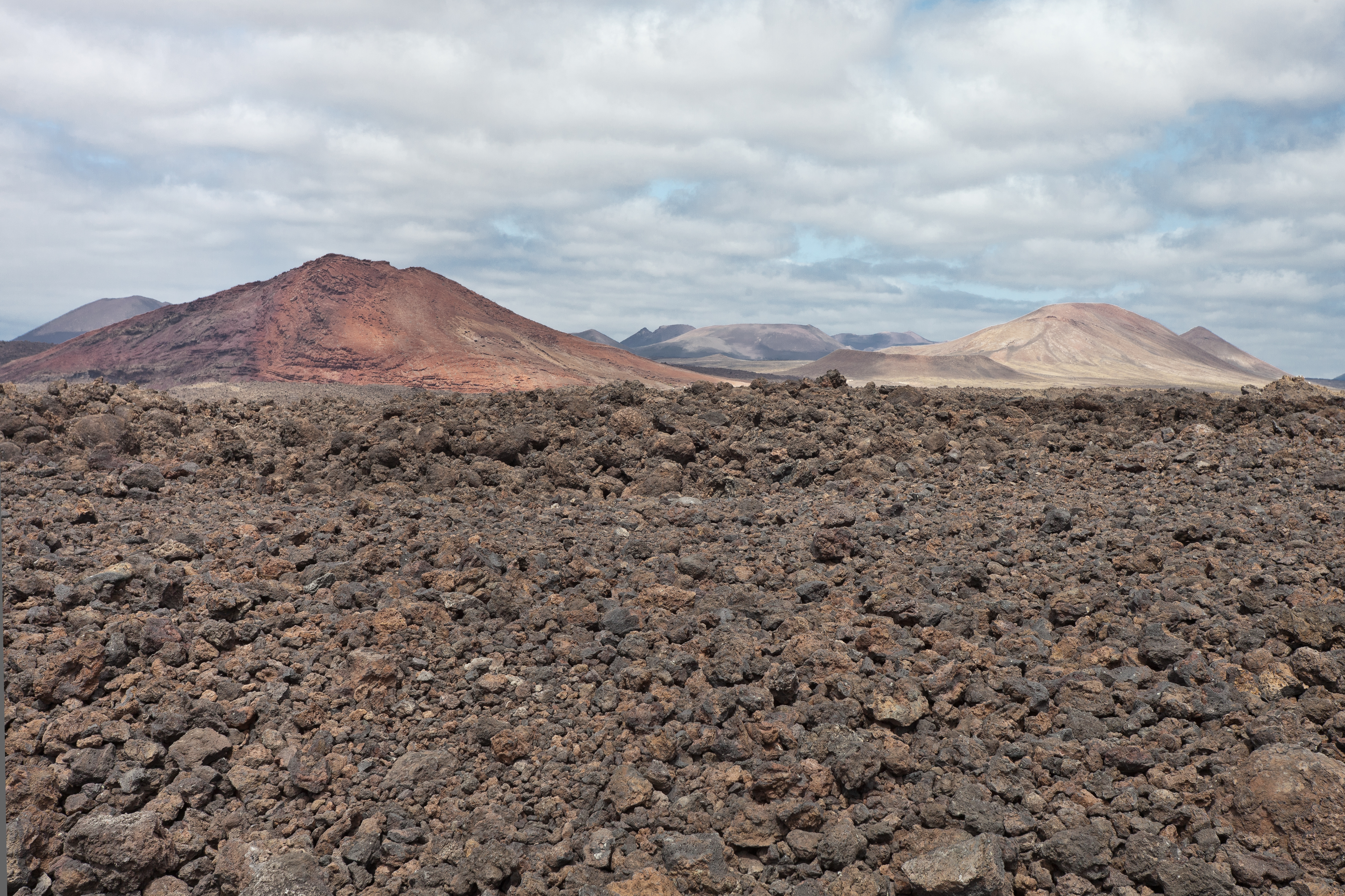 Los Hervideros, Lanzarote, Spain